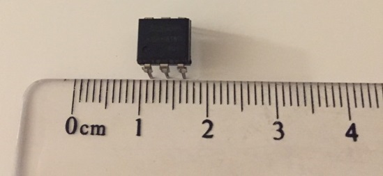 PCB mount solid-state DIL relay, distributed by Jaycar Electronics, with a ruler shown for scale